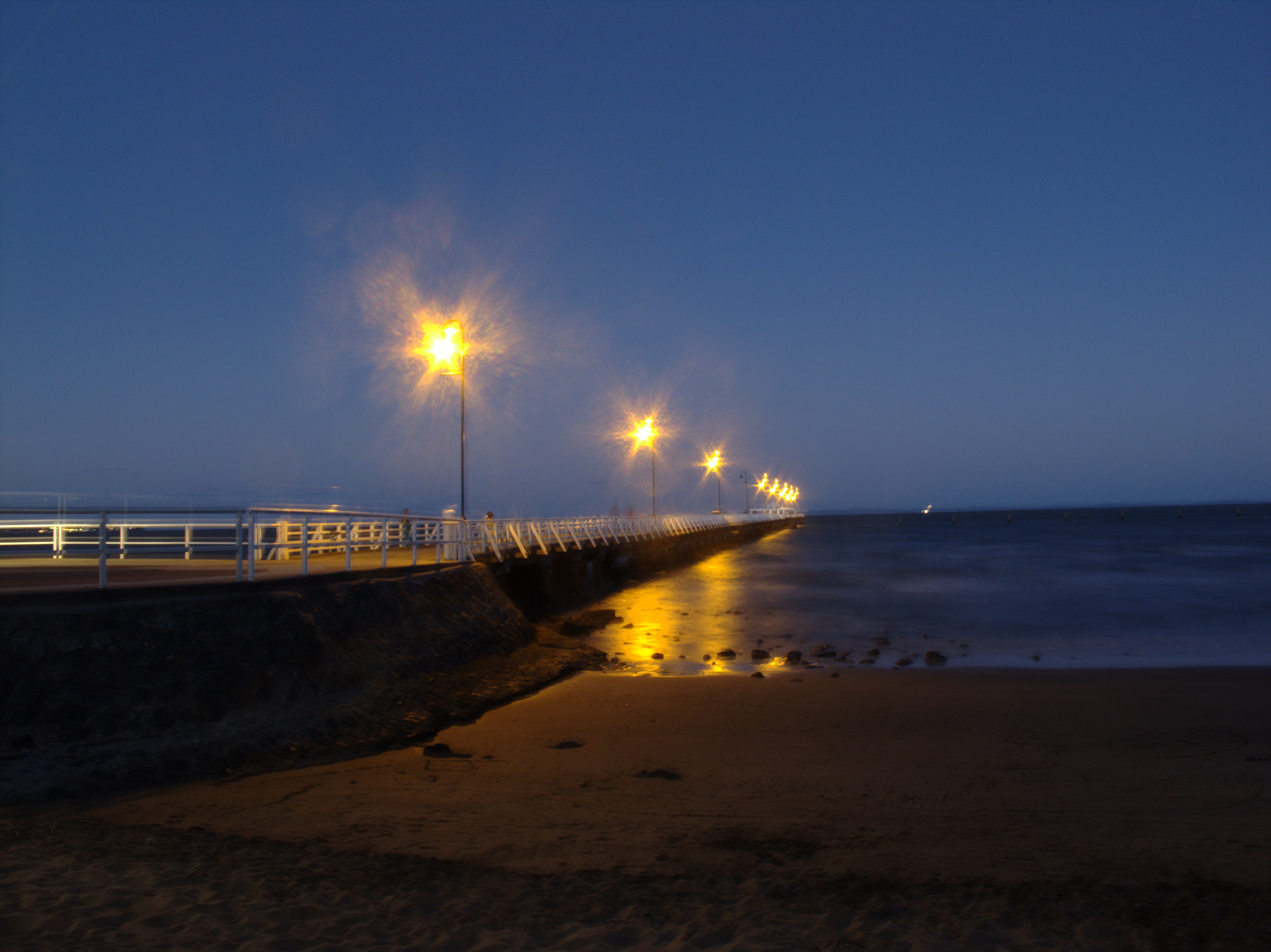 Shorcliffe at night by Tommy Jackson